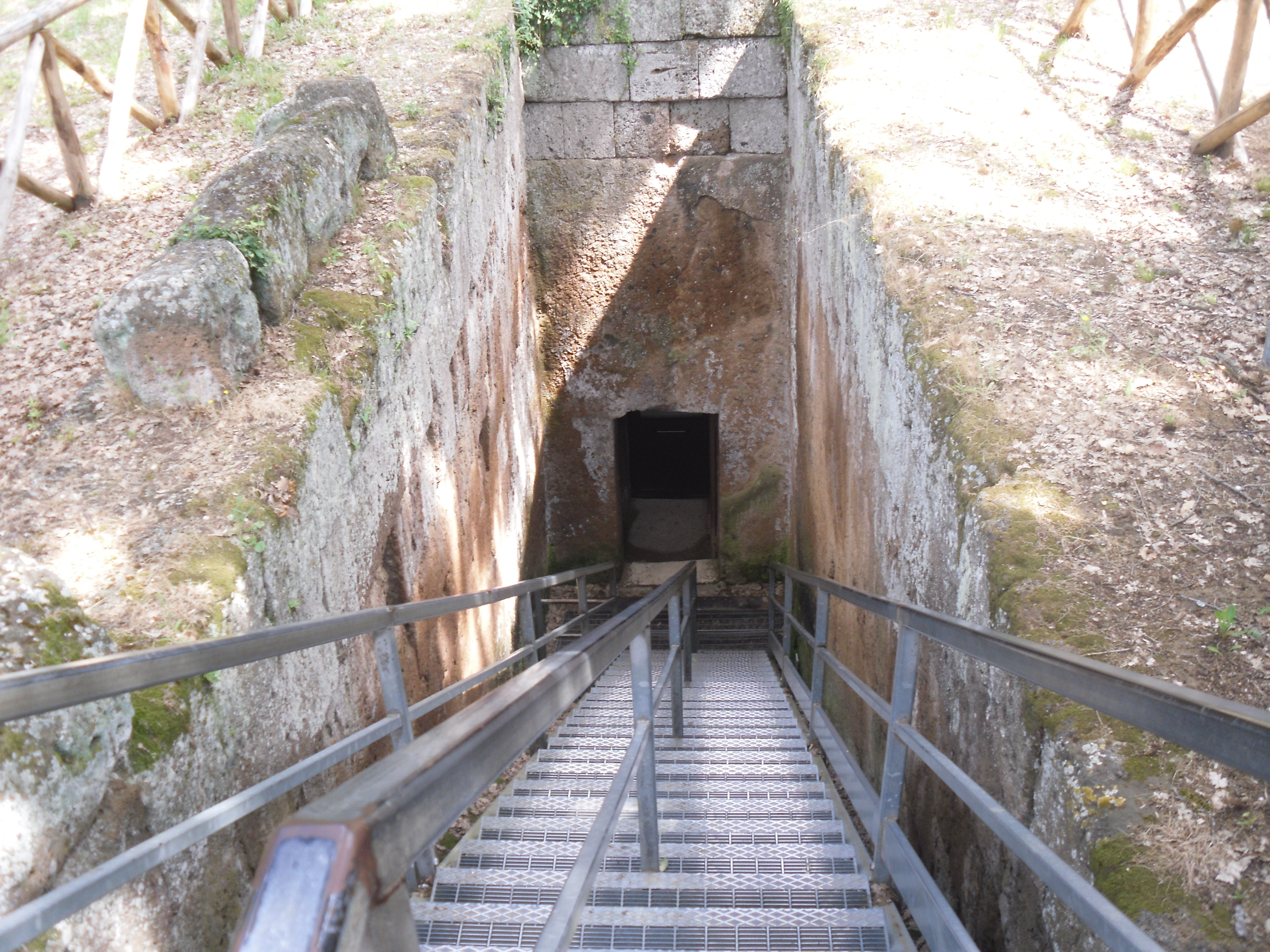 The outside of "Tomba dei rilievi", an ancient Etruscan tomb in the necropolis of Banditaccia